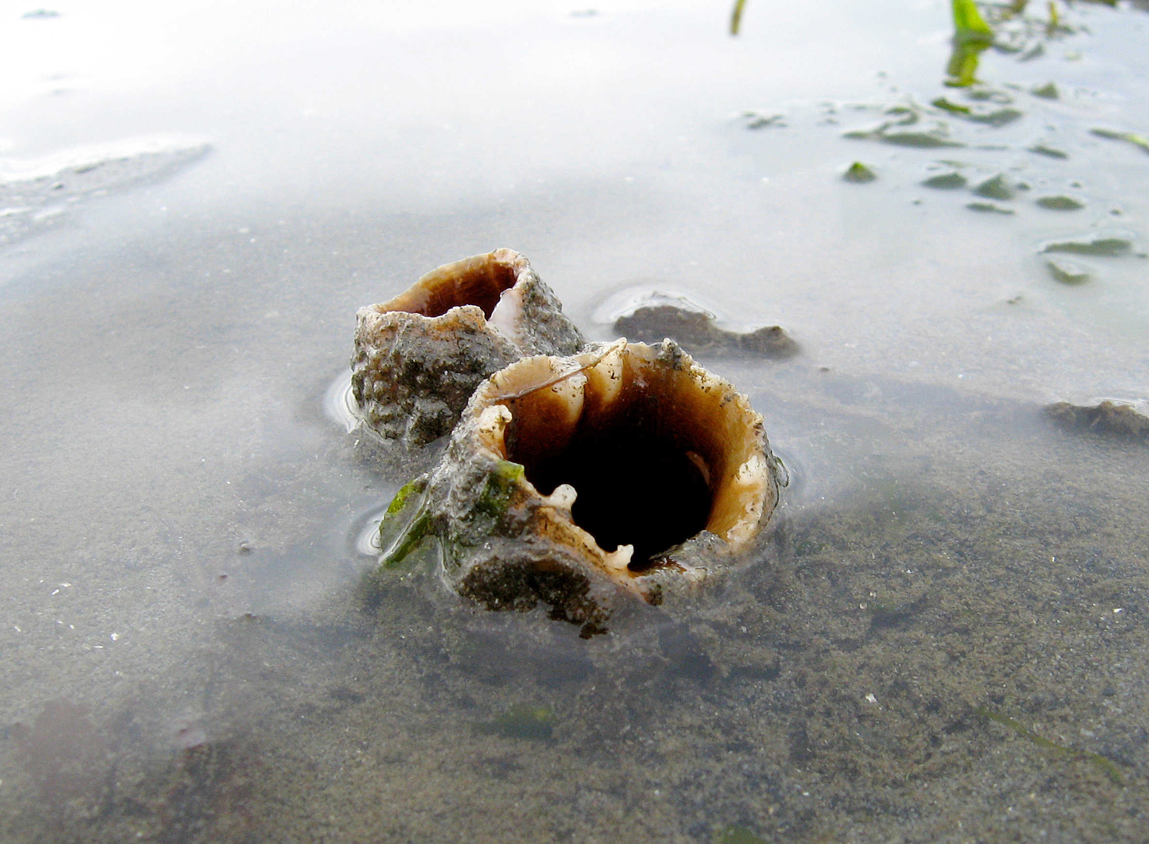 Piddocks (Pholadidae), presumably Rough piddocks (Zirphaea or Zirfaea pilsbryi) – "Saw zillions of these today during the low low tide (-2.3 feet below mean lower low water) in Puget Sound. The siphons are about a half inch to an inch wide. They squirted streams of water several feet into the air now and then, and could close up and retreat into the sand if disturbed."